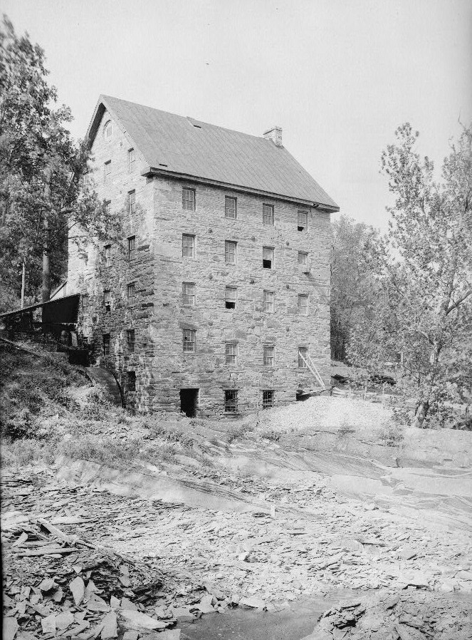 Beverley's Mill, State Route 55, Thoroughfare (Prince William County, Virginia) cropped, HABS VA-828 This file comes from the Historic American Buildings Survey (HABS), Historic American Engineering Record (HAER) or Historic American Landscapes Survey (HALS). These are programs of the National Park Service established for the purpose of documenting historic places. Records consist of measured drawings, archival photographs, and written reports. When reusing please credit: Library of Congress, Prints & Photographs Division, VA-828 This tag does not indicate the copyright status of the attached work. A normal copyright tag is still required. See Commons:Licensing. This work is in the public domain in the United States because it is a work prepared by an officer or employee of the United States Government as part of that person’s official duties under the terms of Title 17, Chapter 1, Section 105 of the US Code. Note: This only applies to original works of the Federal Government and not to the work of any individual U.S. state, territory, commonwealth, county, municipality, or any other subdivision. This template also does not apply to postage stamp designs published by the United States Postal Service since 1978. (See § 313.6(C)(1) of Compendium of U.S. Copyright Office Practices). It also does not apply to certain US coins; see The US Mint Terms of Use. This file has been identified as being free of known restrictions under copyright law, including all related and neighboring rights. Object location38° 49′ 28″ N, 77° 42′ 39″ W